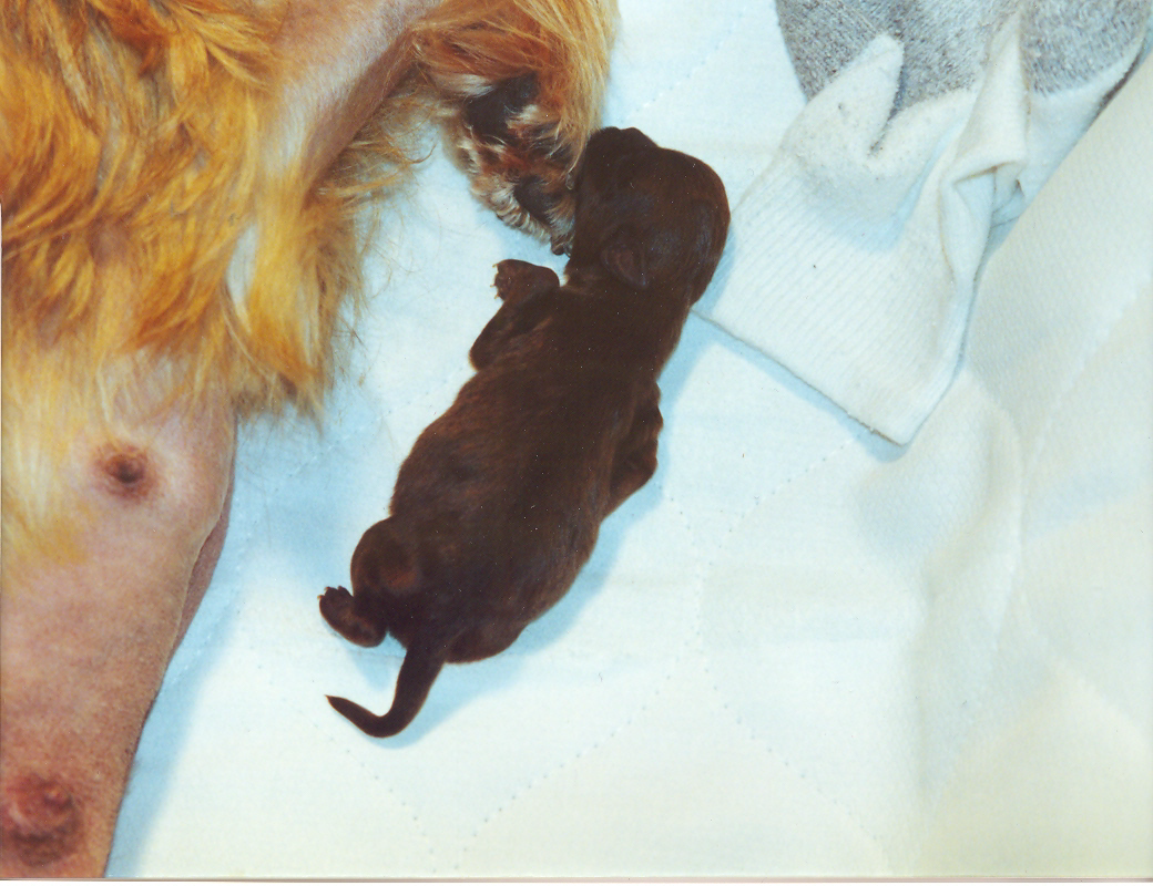 A picture of the a Griffon puppy we had when he was only a day old.